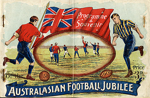 The front cover of the souvenir programme of the 1908 Jubilee Australasian Football Carnival. The carnival commemorating 50 years of Australian rules football, was held in Melbourne. All of its matches played at the Melbourne Cricket Ground. It was the first Australian rules football interstate competition. It was unique; not only were there teams from New South Wales, Queensland, South Australia, Tasmania, Victoria, and Western Australia, there was also a team from New Zealand. Newby, H.D., A Profusely Illustrated Souvenir and Programme of the Australasian Football Jubilee Carnival, 1908, J.L. Anderson & Sons, (Melbourne), 1908.